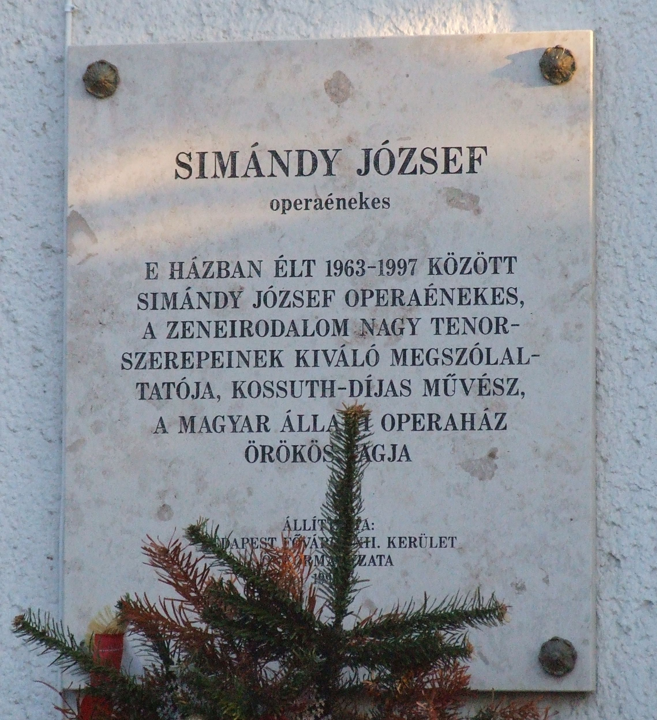 József Simándy commemorative plaque in Budapest District XII, Mártonhegyi Street No 20/a.